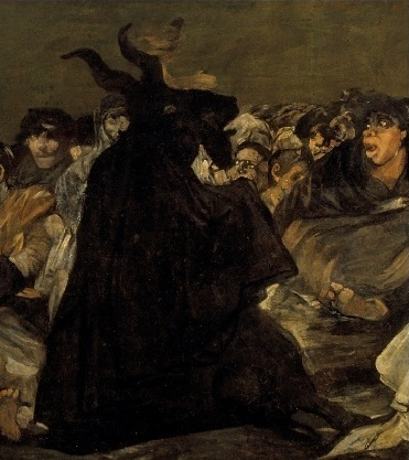 crop of Witches' Sabbath (The Great He-Goat)